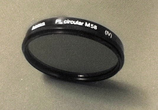 circular polarizing photographic filter